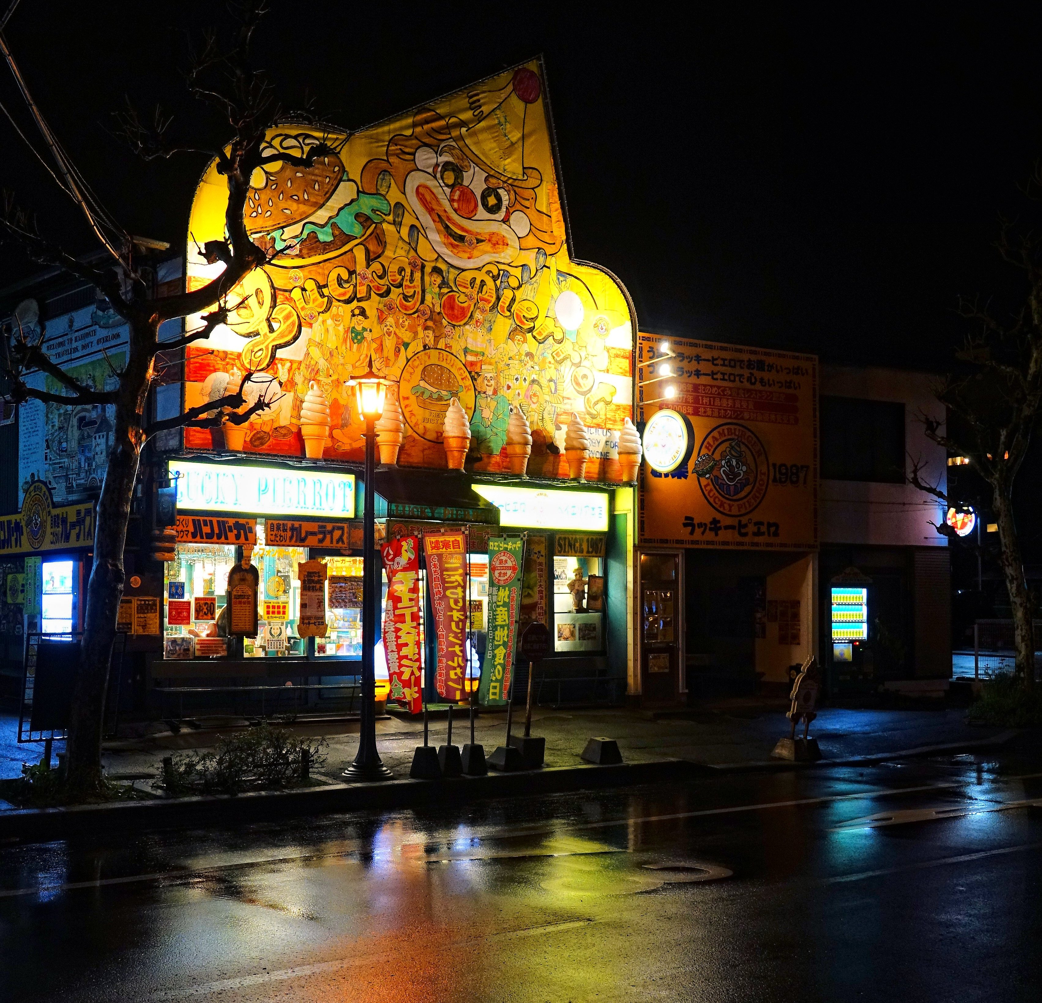 One of several Lucky Pierrot restaurants in and around Hakodate, Hokkaido, Japan.